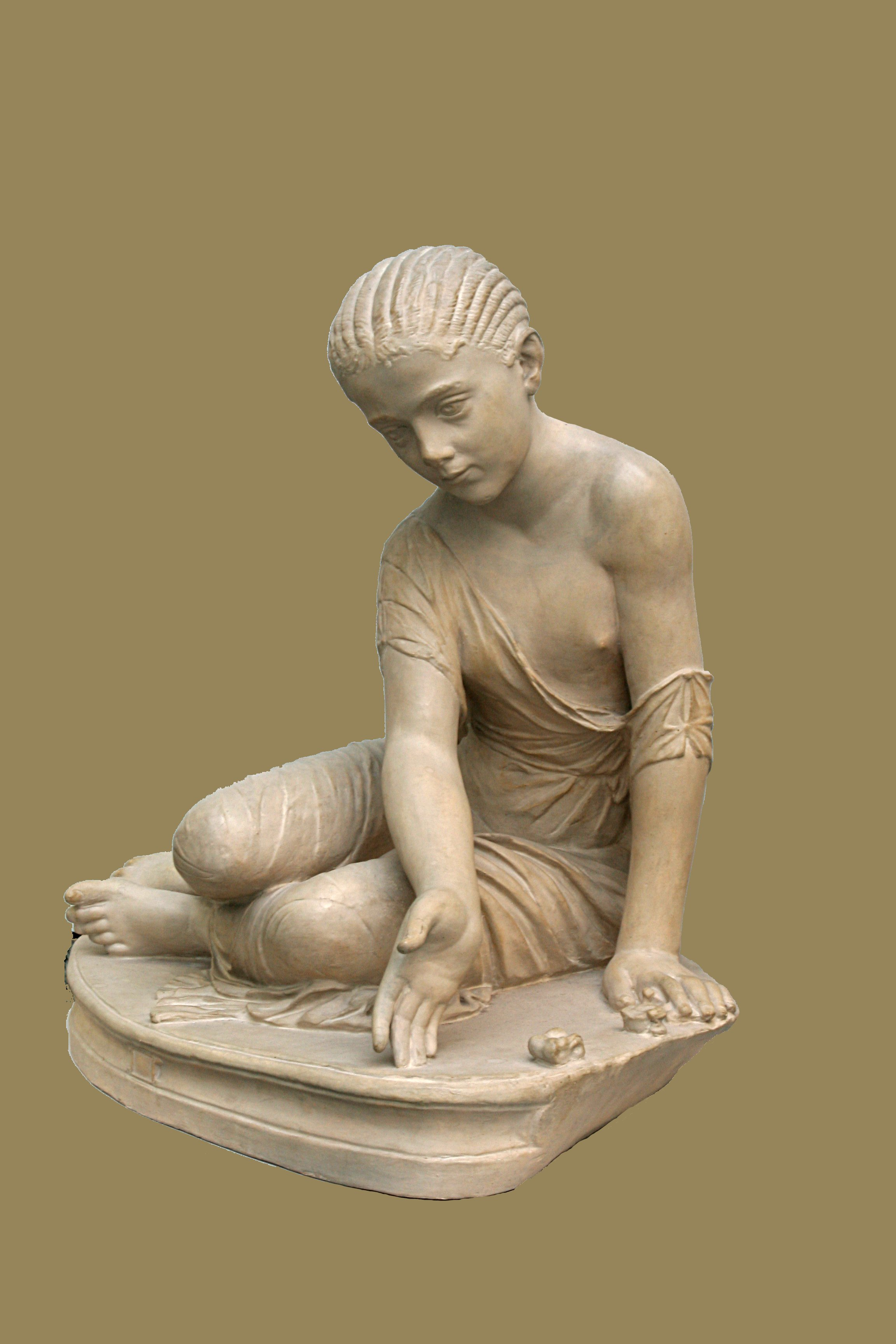 Roman Statue of a girl playing astragaloi 130 - 150 aC Berlin, Antikenmuseum The photo was taken by me at the Glyptothek Munich